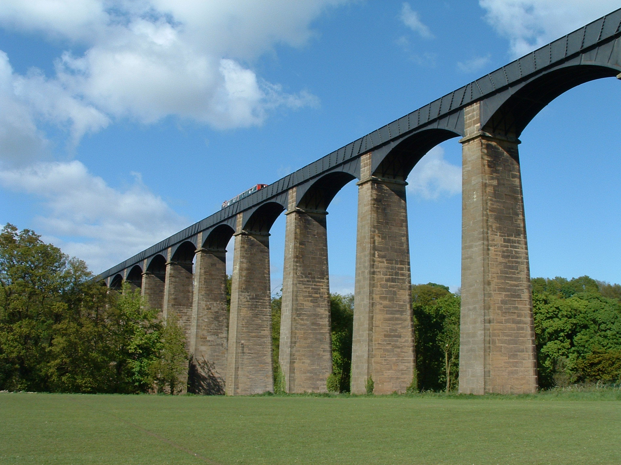 Pontcysyllte Aqueduct; picture taken by Akke Monasso